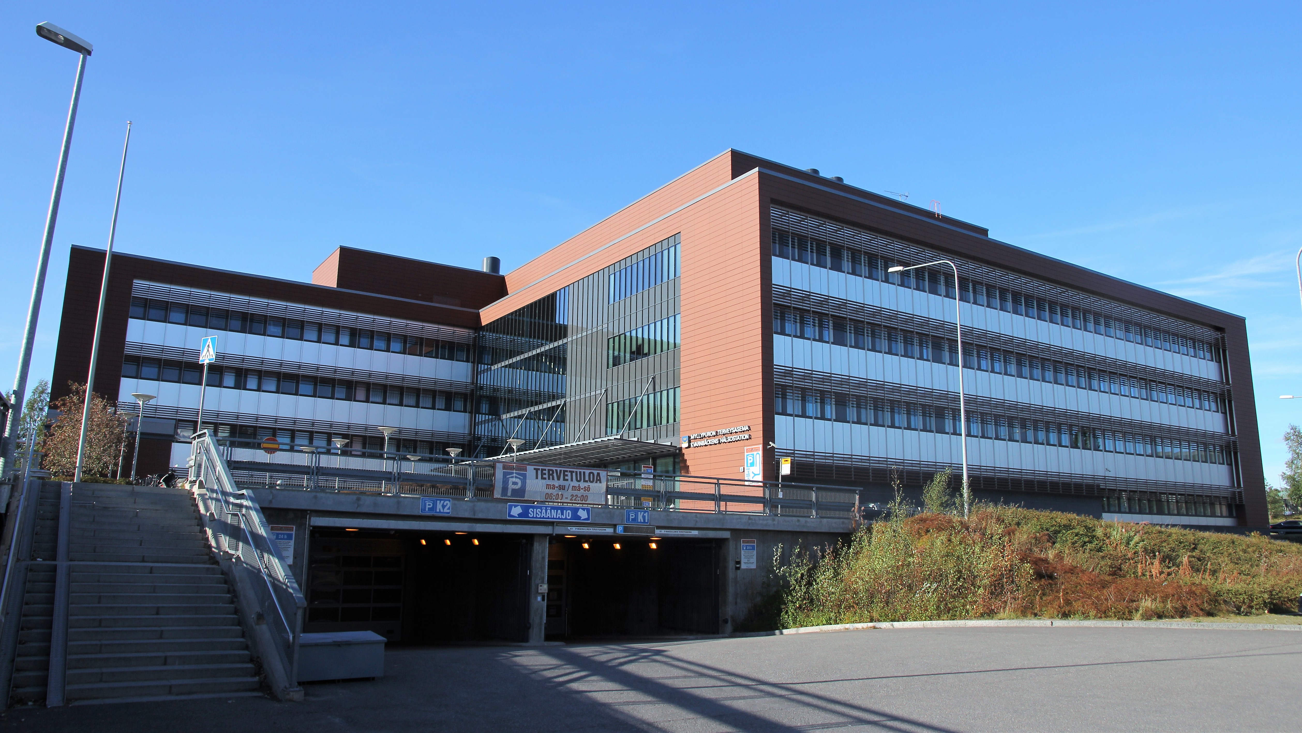 Myllypuro health station has 2 underground floors for parking and 4 main floors. Address: Jauhokuja 4, 00920 Helsinki.